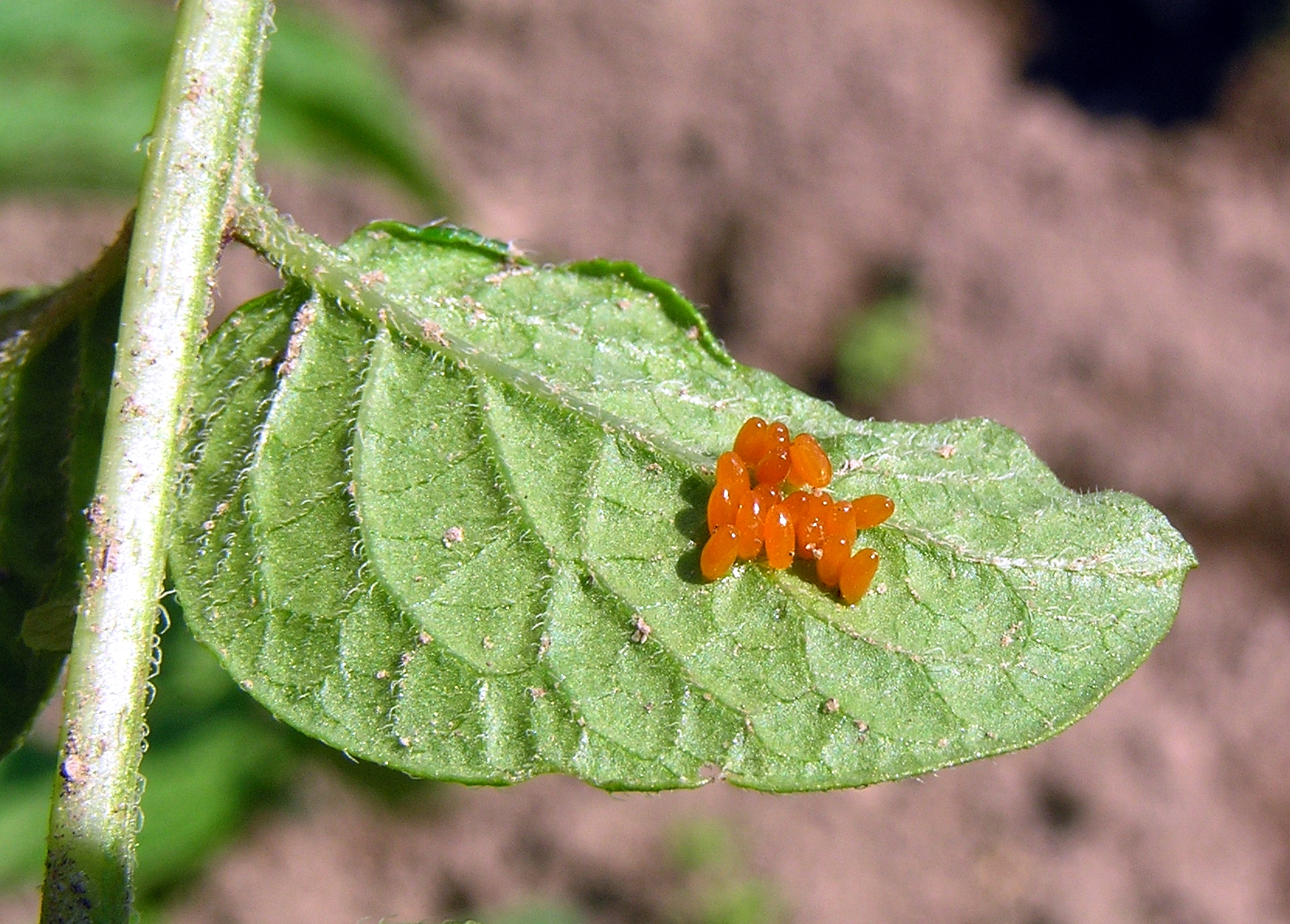 Eggs